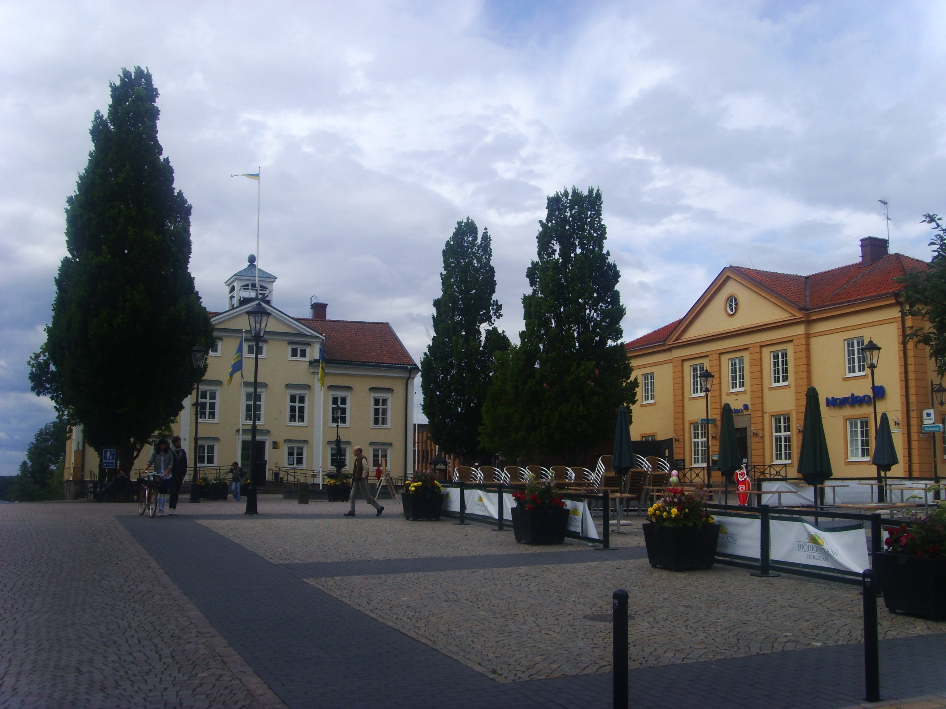 Vimmerby